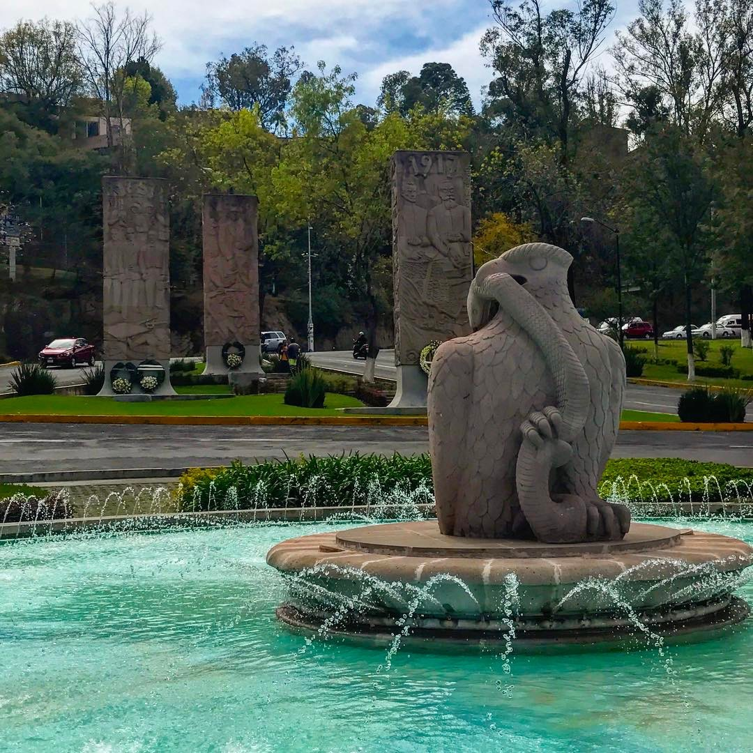 Monumento al águila en Glorieta de la Reforma y estelas de la Constitución